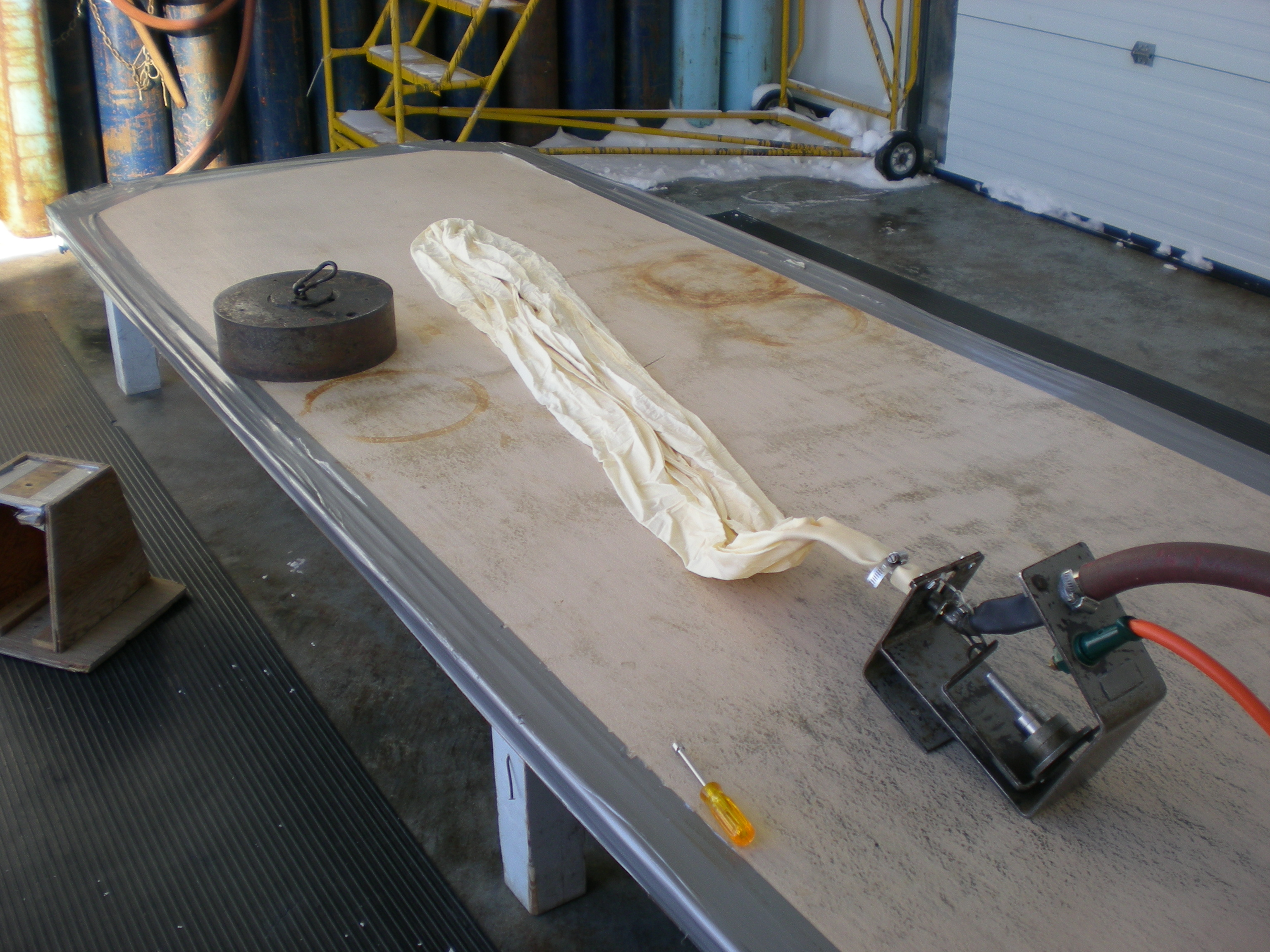 Balloon laid out on table attached to filler stand.